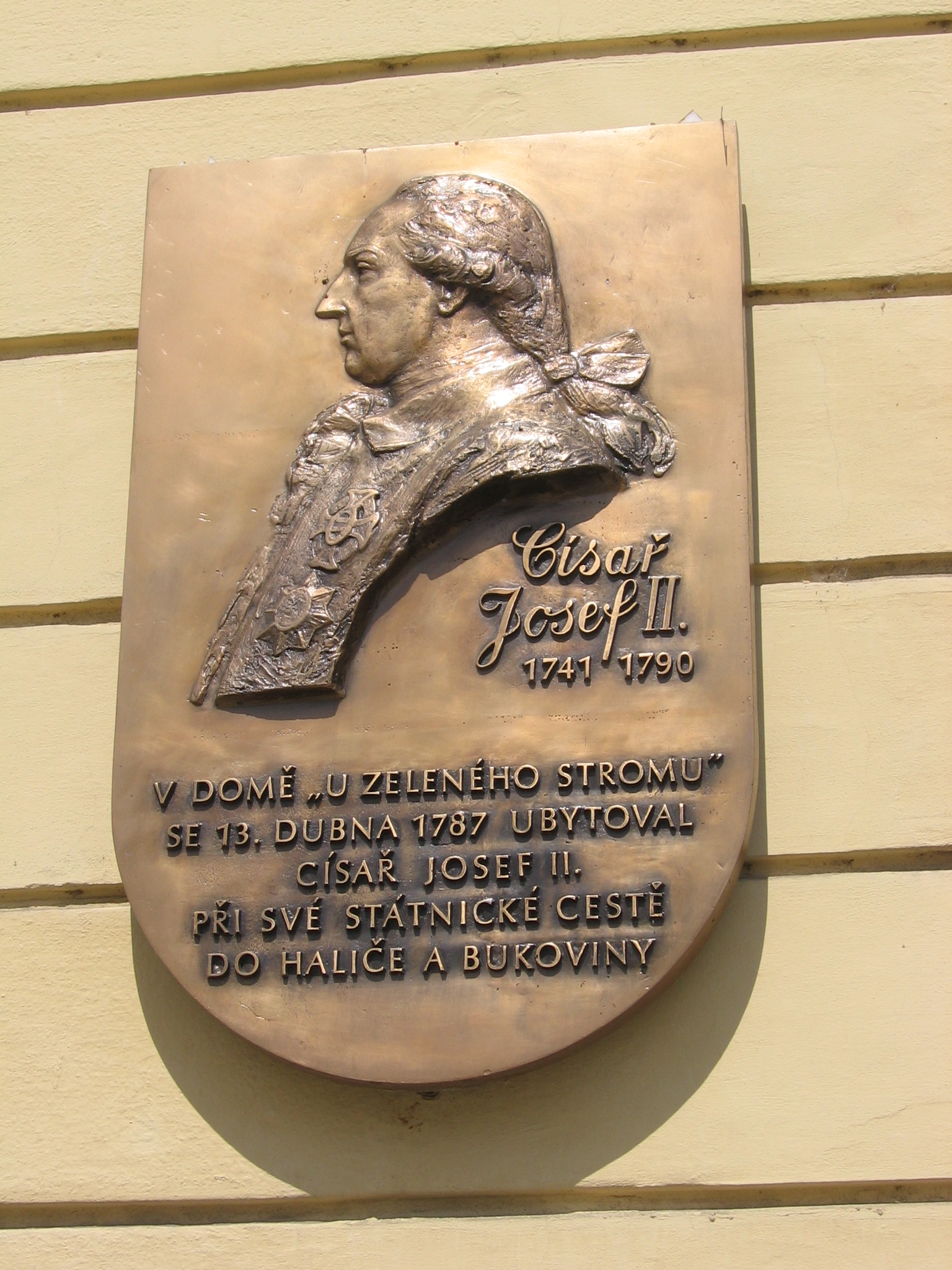 Memorial plaque on the Masaryk square in Nový Jičín, Czech Republic. On the plaque is lettering: In the house "U zeleného stromu", on the 13. April 1787, was accommodated the emperor Josef II. during his journey to the Halič and Bukovina.